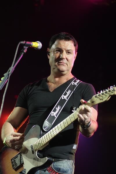 Maxim Leonidov at a concert in the Milk Moscow Club on December 10, 2009.